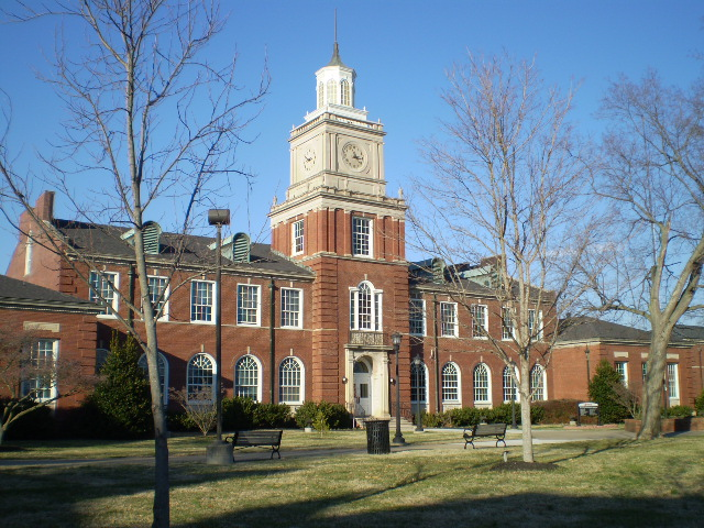 Browning Building at Austin Peay State University. Primary purpose is administrative and houses the Business Office of the University.